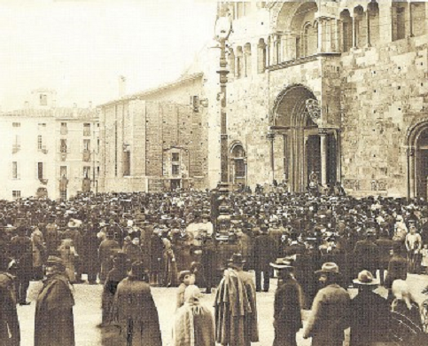 Funeral of the archbishop Guido Maria Conforti (Parma 1865 - 1931)